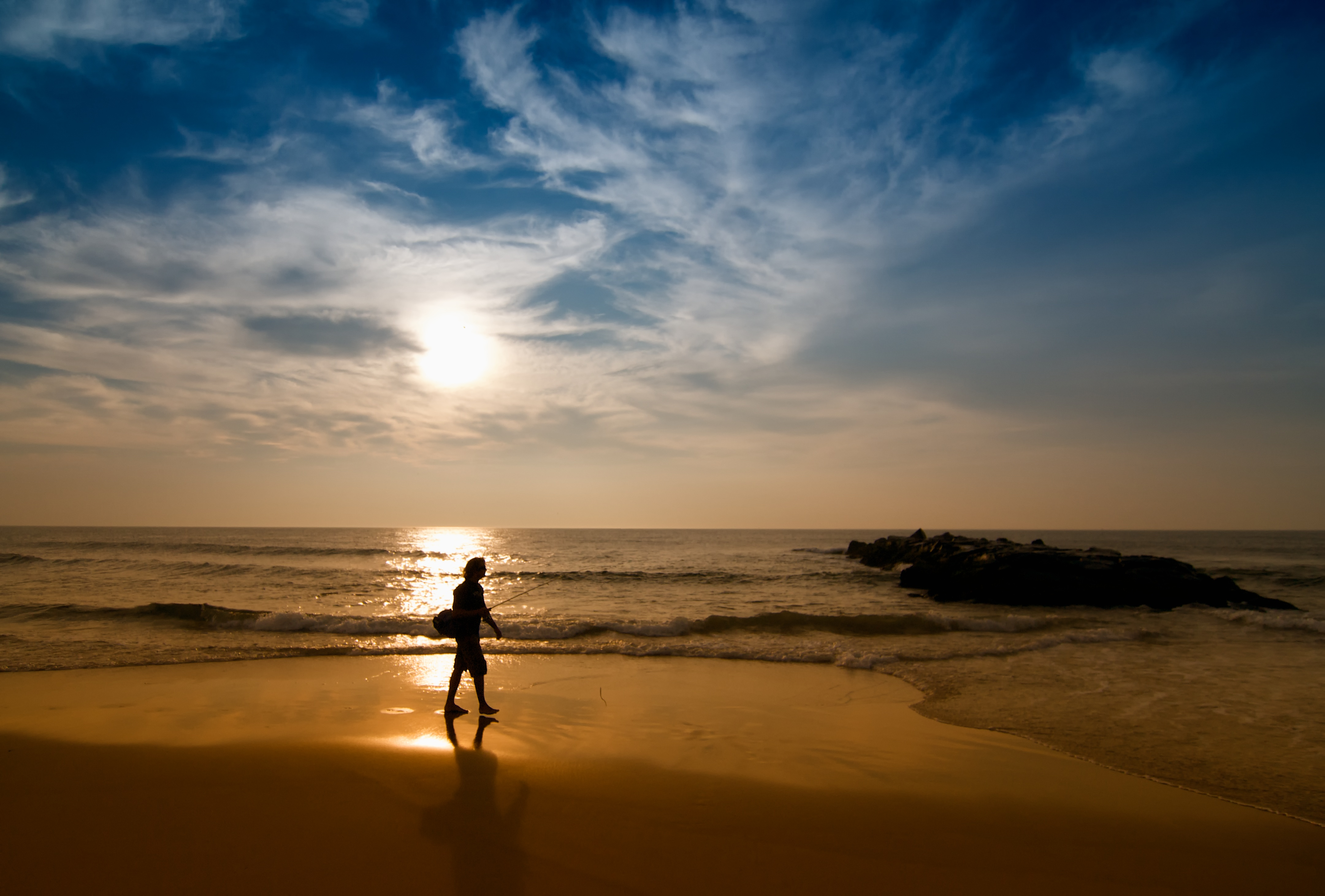 The beach in Spring Lake, New Jersey at 7 AM EDT, one of the more upscale Jersey Shore towns.